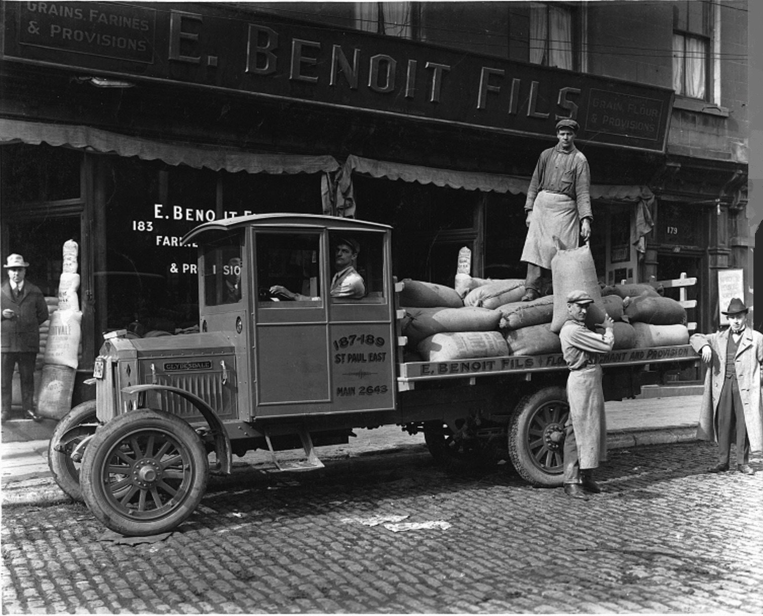 Photograph, "Clydesdale" truck, E. Benoît Fils, Montreal, QC, Silver salts on glass - Gelatin dry plate process - 20 x 25 cm